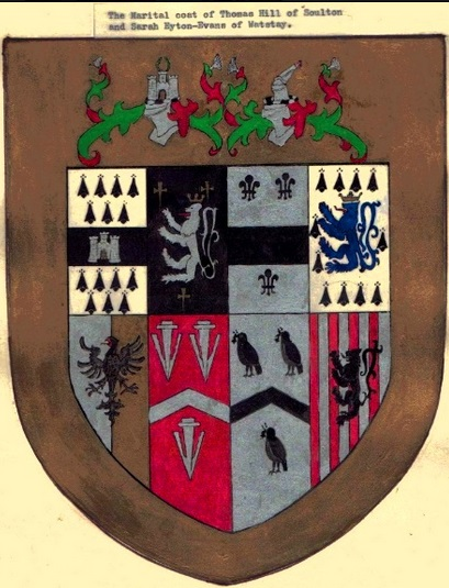 1688 arms at soulton